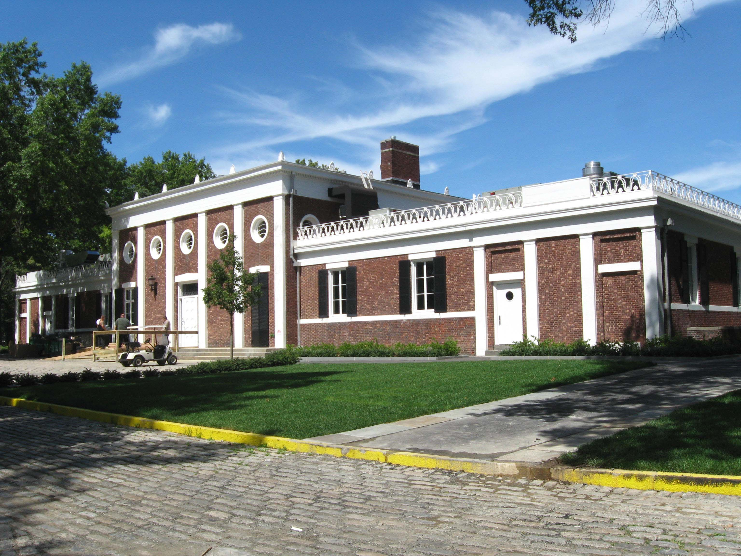 Looking northwest from bikeway at Split Rock (Bronx, New York) Golf Club on a sunny midday